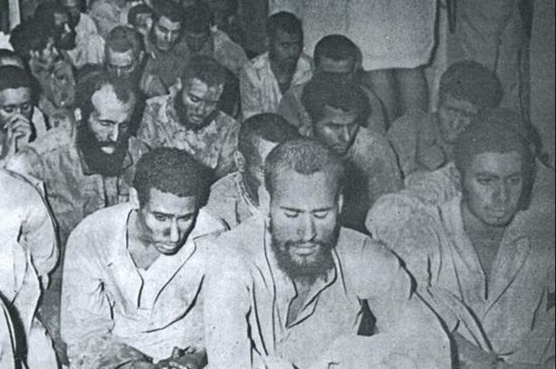 Insurgents from the 1979 Grand Mosque Seizure.